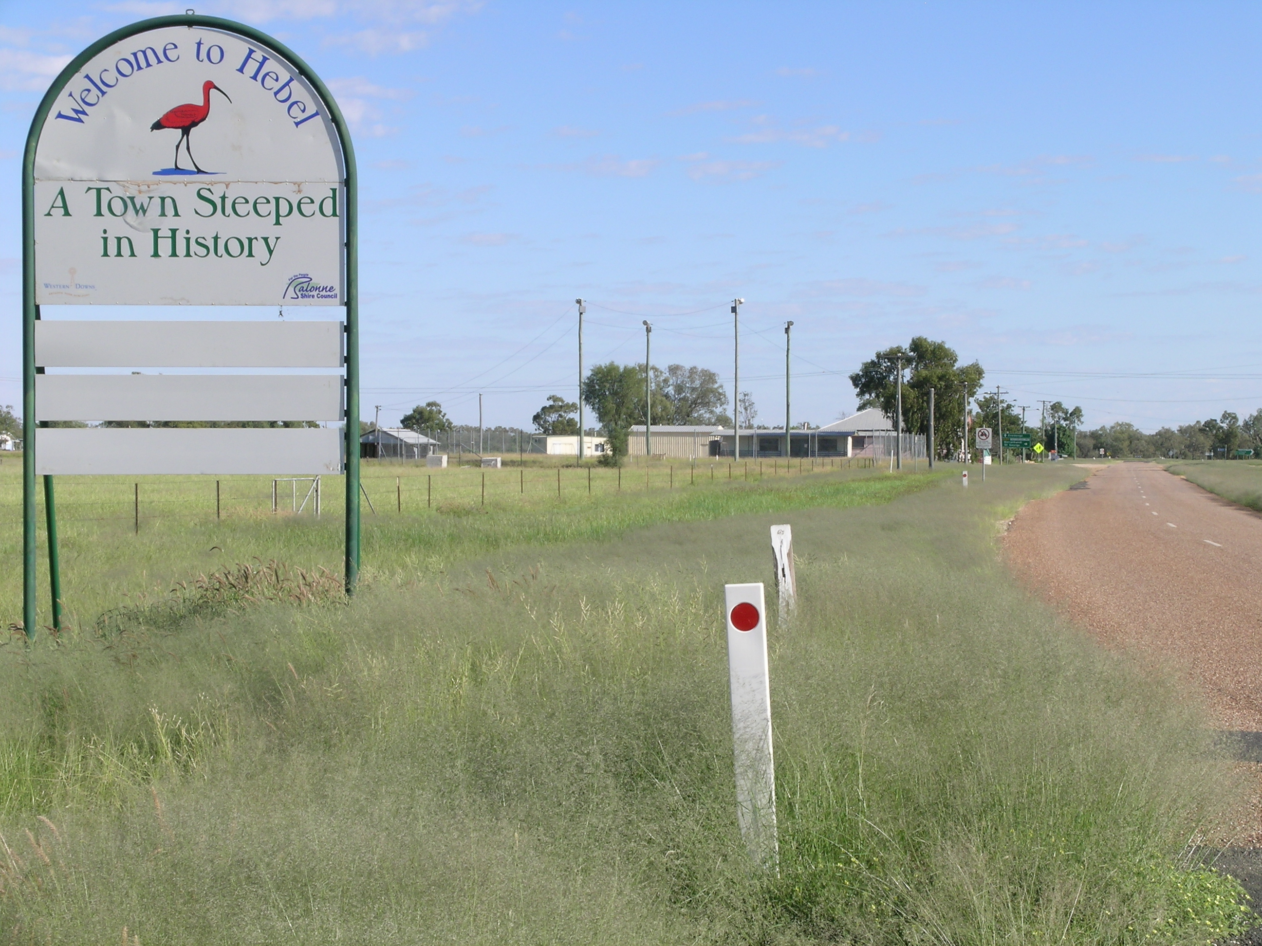 Town entrance sign to Hebel, Queensland.